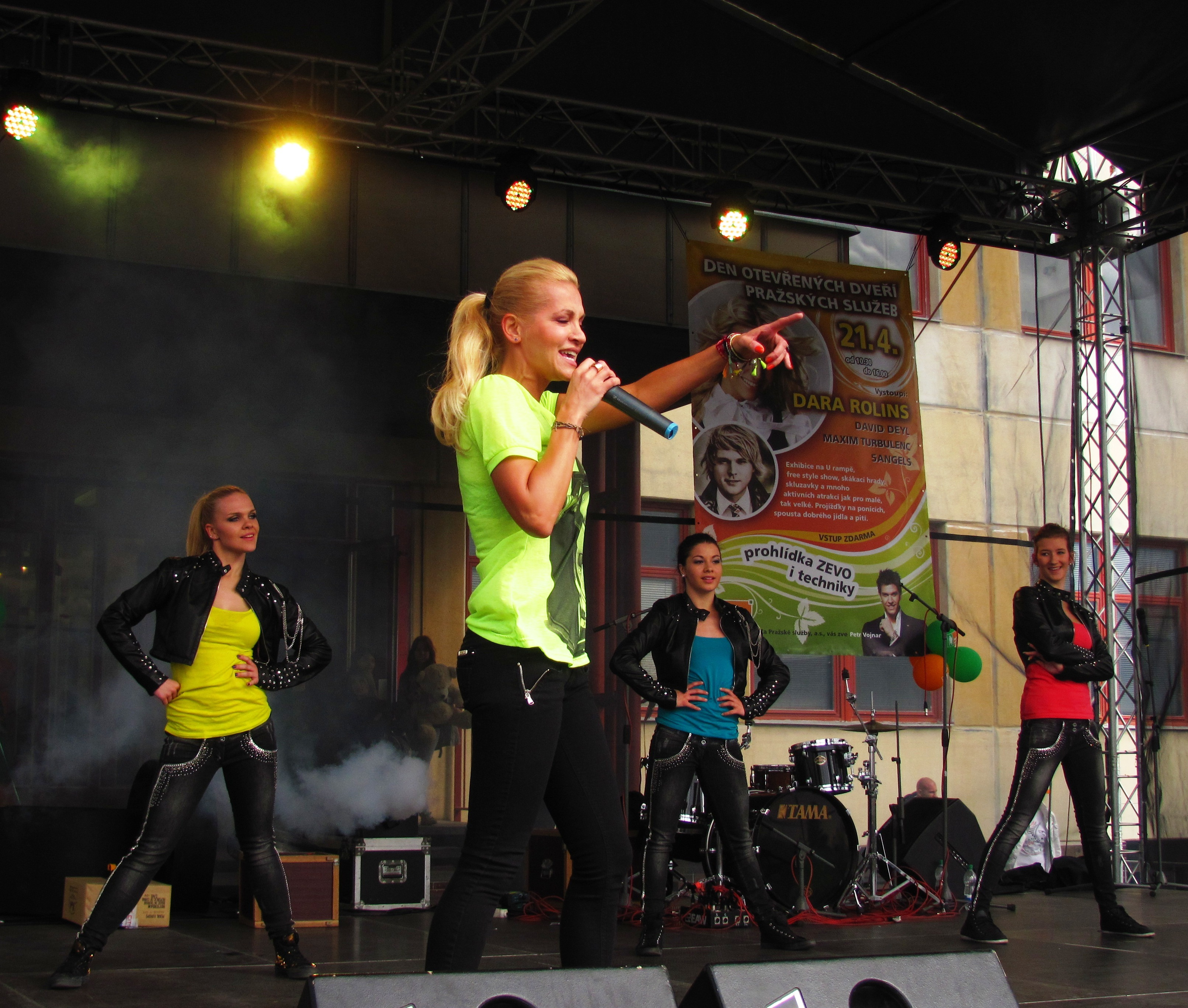 Dara Rolins, Slovak singer